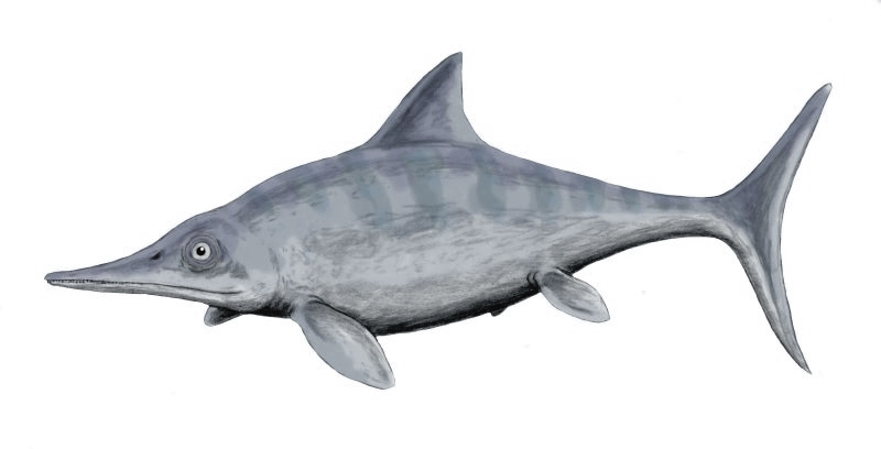 Ophthalmosaurus icenicus, an ichthyosaur from the Late Jurassic, pencil drawing